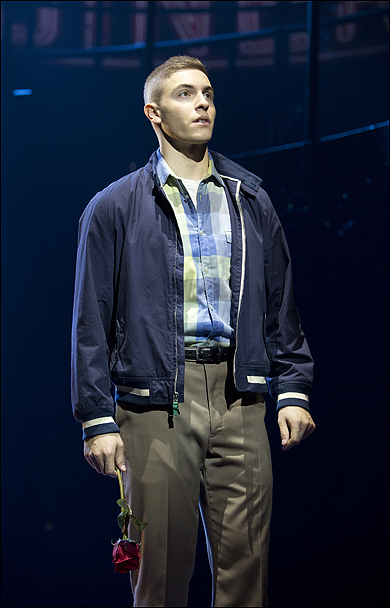 Derek Klena as Eddie Birdlace in the stage production of 'Dogfight' the musical.